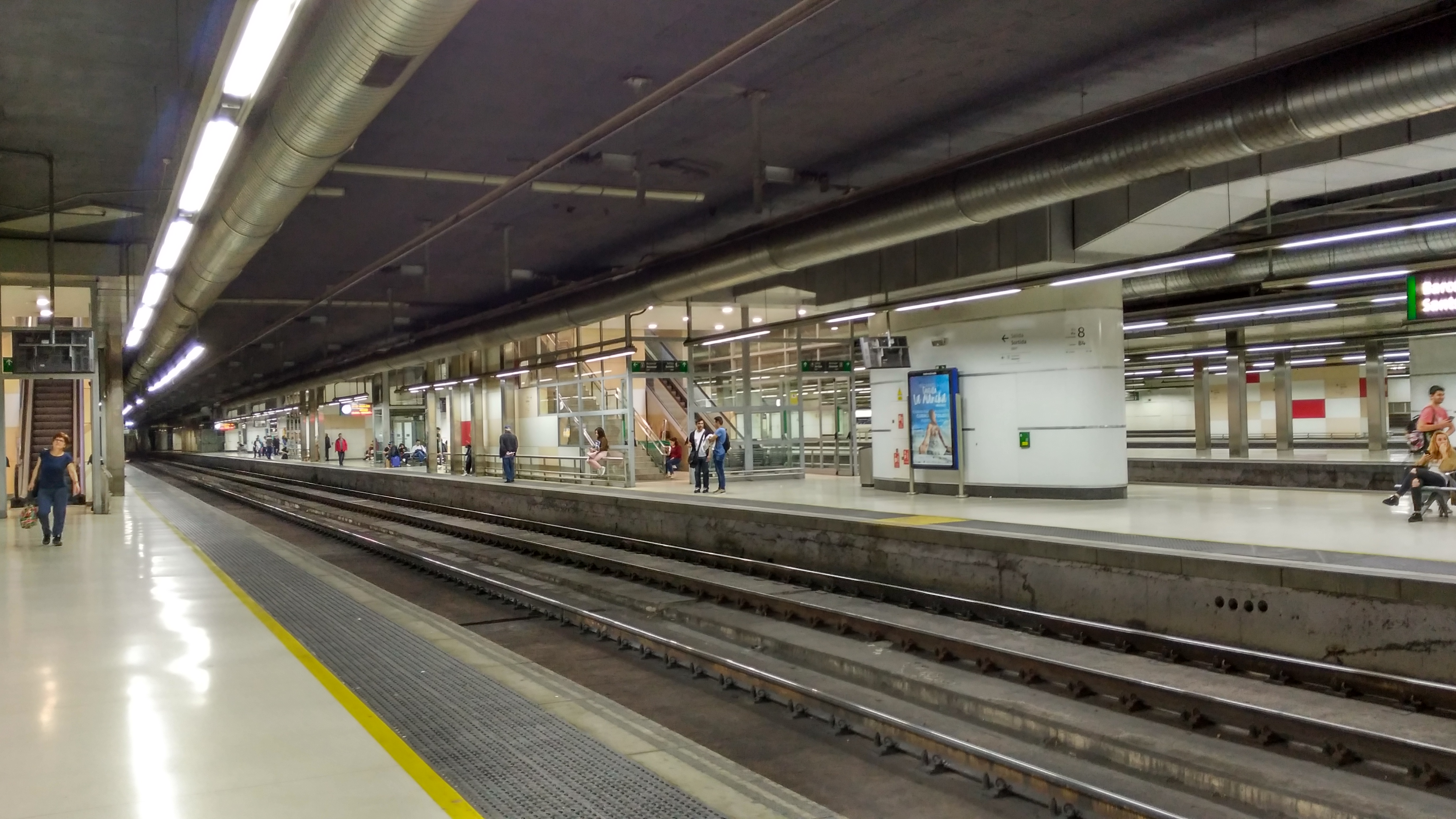 Barcelona Sants station platforms 8 and 9